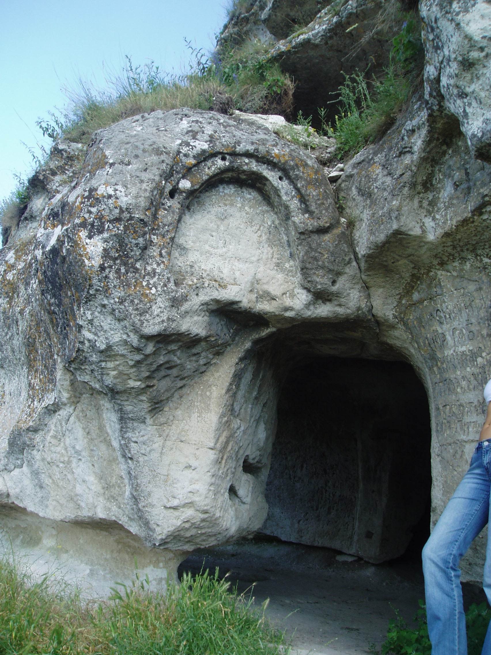 Not quite sure what we are seeing here, but at least it's very old, and to the right there's the best kept old "writing on the wall". The nice leg and belly is only a teaser for other photos:-) See where this picture was taken. [?] I am not sure about the geotag, it could be for the churchthing, the entrance to the main cave, or the spring but it should be pretty close anyway. Nice if someone could confirm. In Orheiul Vechi, Moldova.